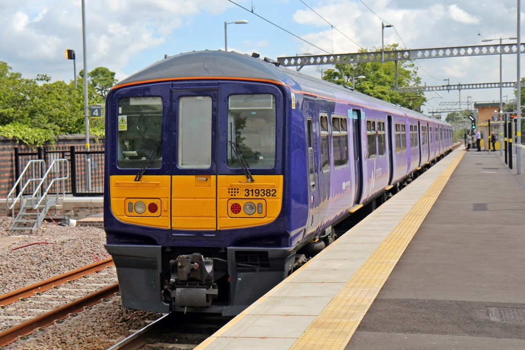 Northern Electrics Class 319, 319382, platform 3, Huyton railway station